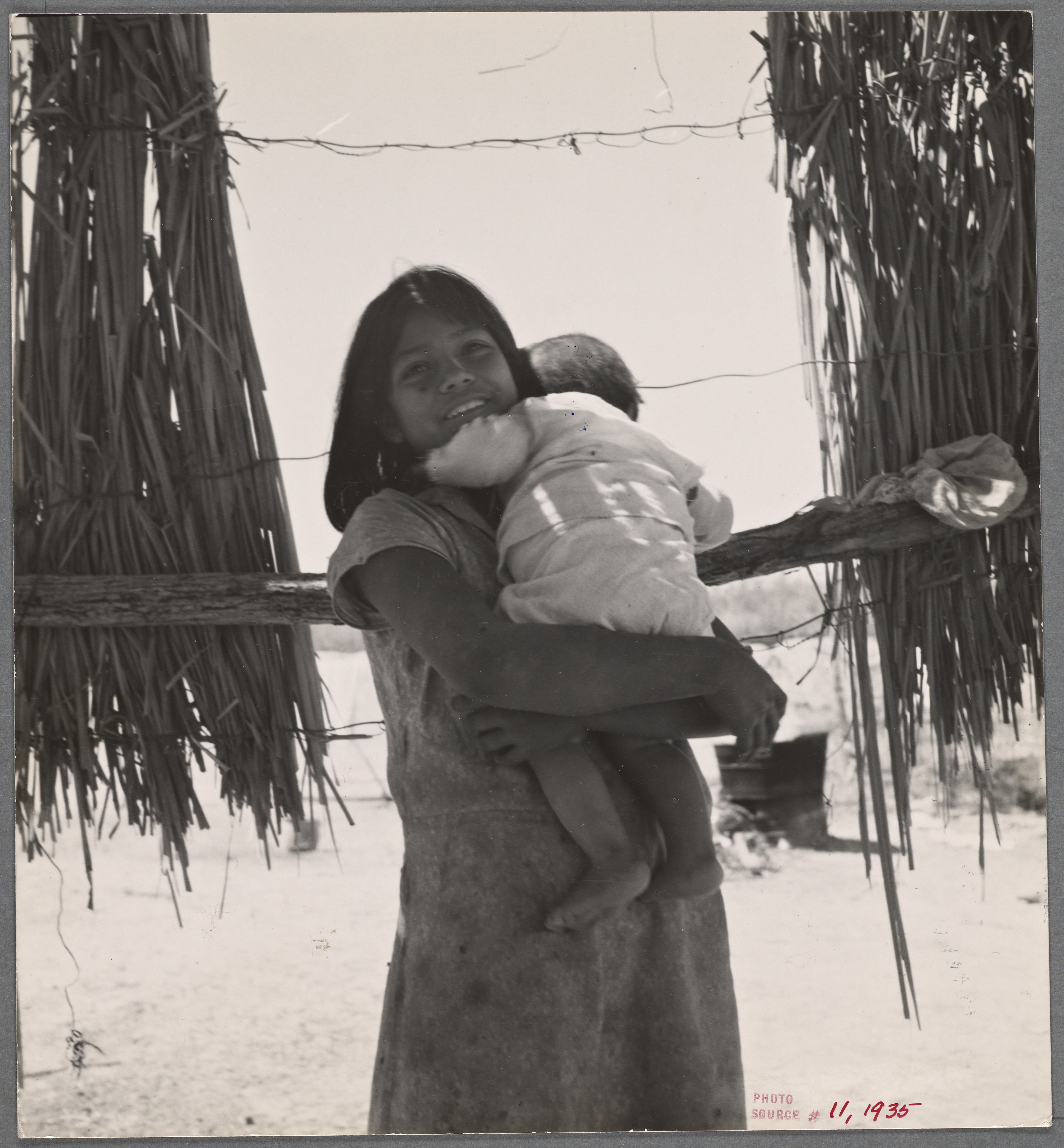 Portrait of a Mexican-American child. Imperial Valley, California